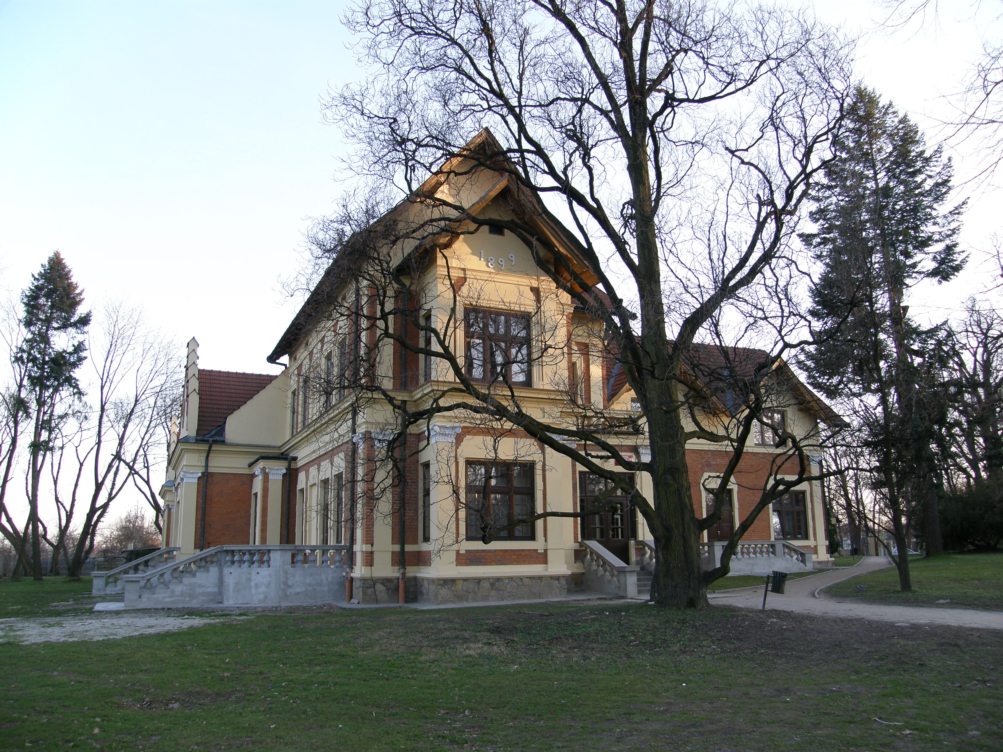 Music School, former Gardner's House